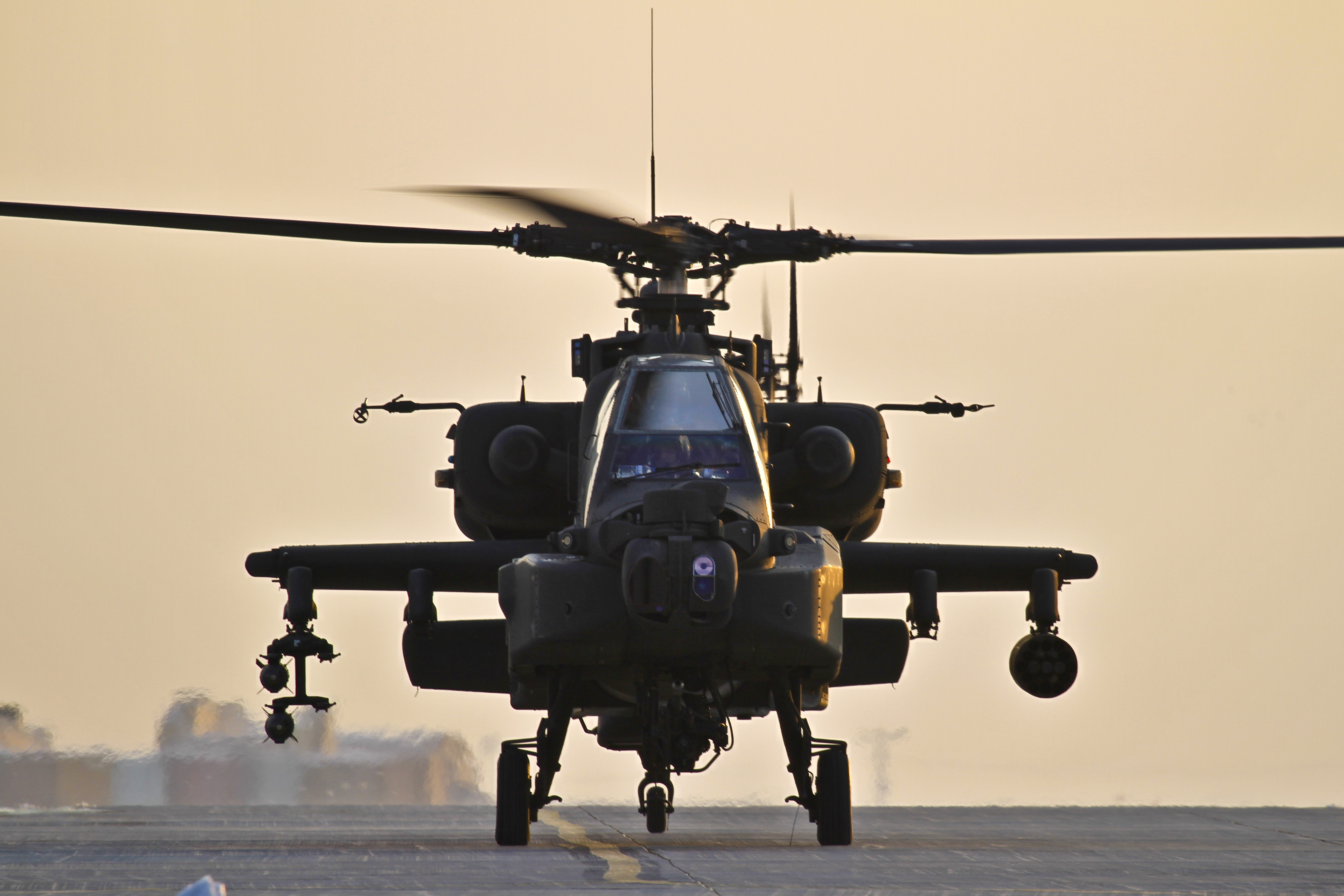 A U.S. Army AH-64 Apache attack helicopter prepares to depart Bagram Air Field, Afghanistan, on Jan 7, 2012. The Apache conducts distributed operations, precision strikes against relocatable targets, and provides armed reconnaissance when required in day, night, obscured battlefield and adverse weather conditions